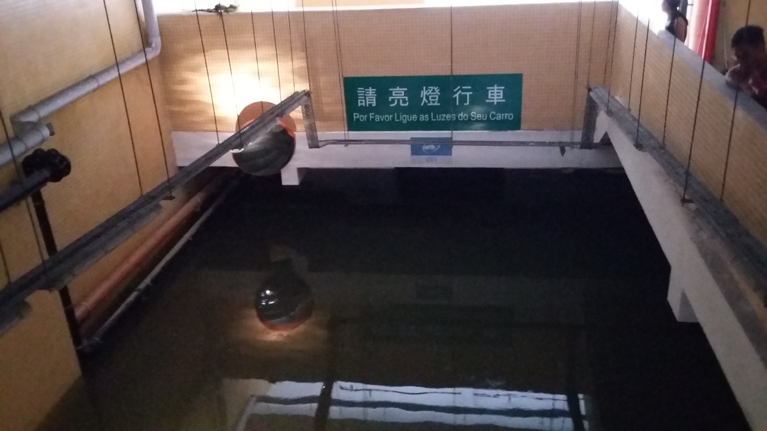 Water level is at the ceiling of the -1 floor of the underground parking garage at Edifício Fai Tat (Fai Tat Building).